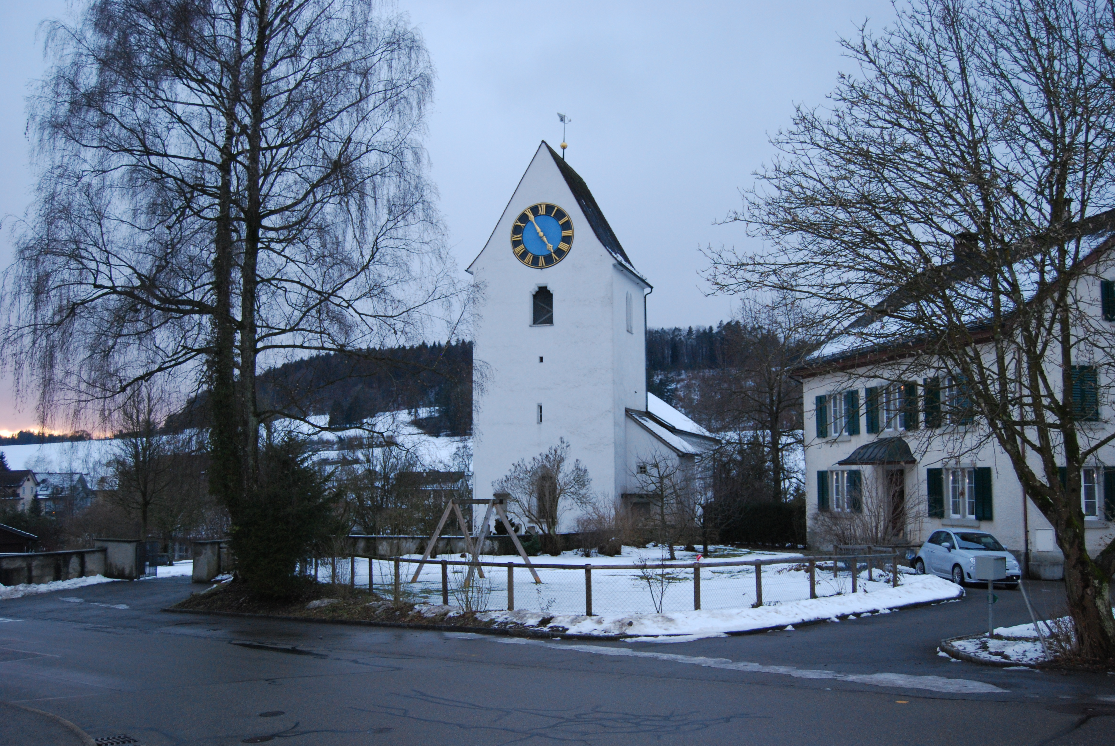 Church of Weisslingen, canton of Zürich, SwitzerlandEsperanto: Preĝejo de Weisslingen, Kantono Zuriko, Svislando